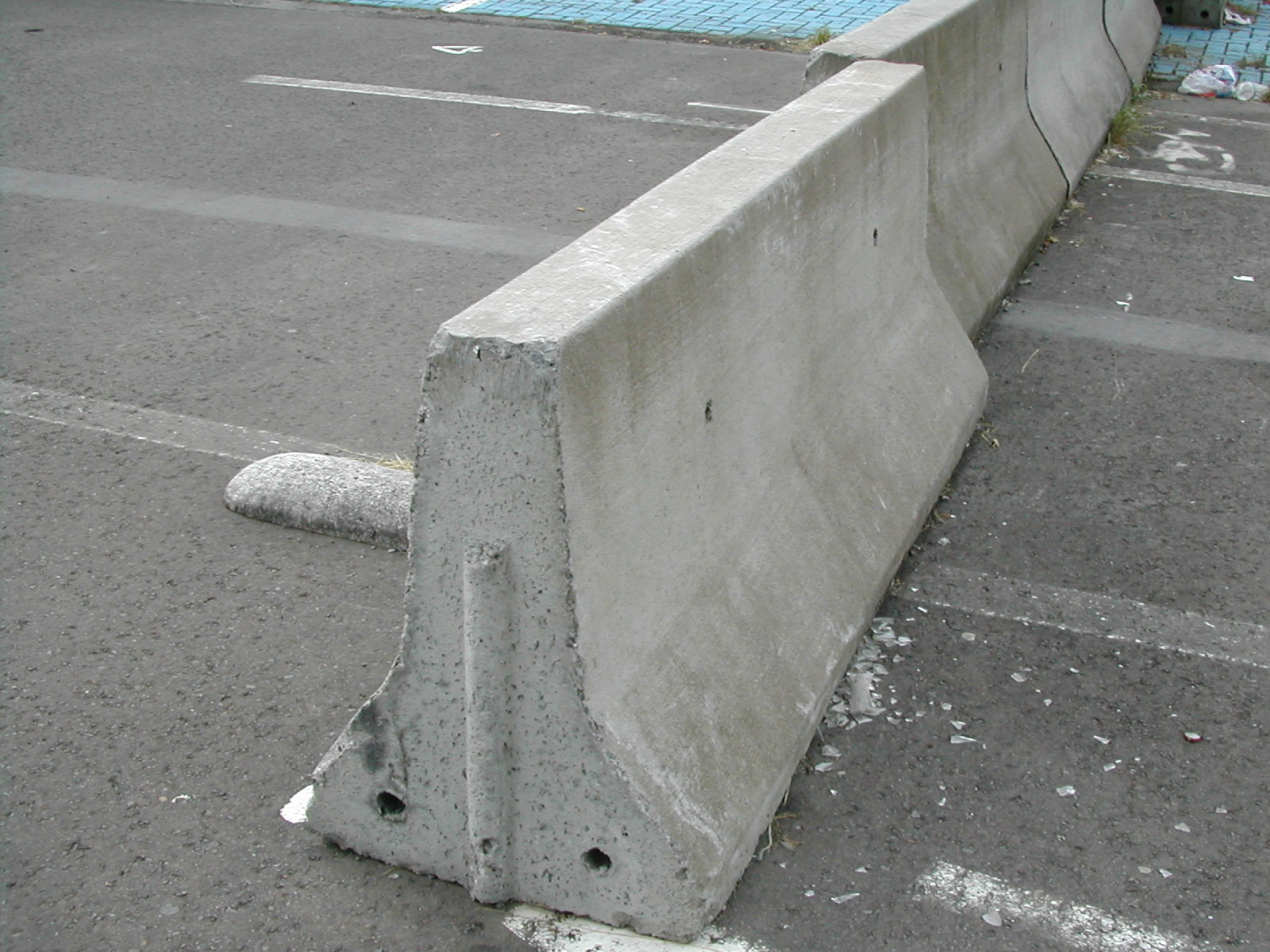 Barreira New Jersey